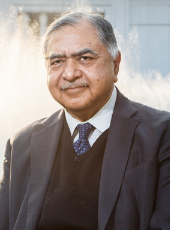 Kamal Hossain is a Bangladeshi politician, statesman and lawyer. He is credited as being one of the principal authors of the Constitution of Bangladesh